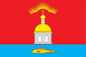 Flag of Pechenga, Murmansk Region, Russia